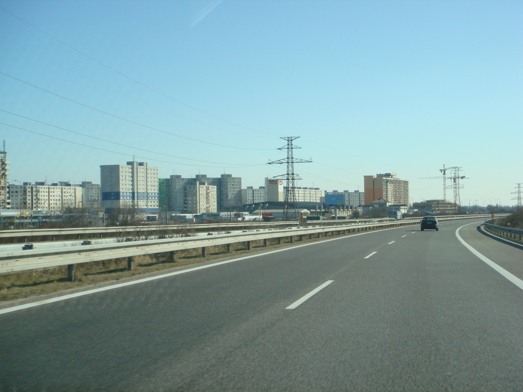 Highway D2 near Bratislava, with the borough of Petržalka on the left